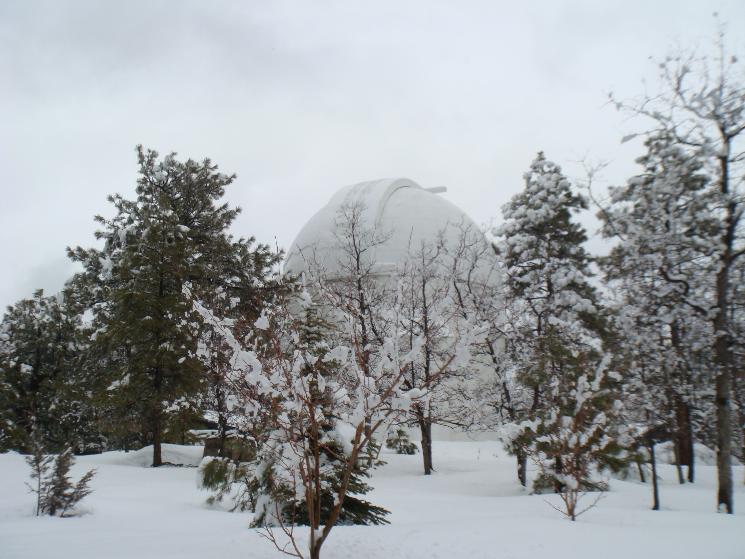 Lowell Observatory